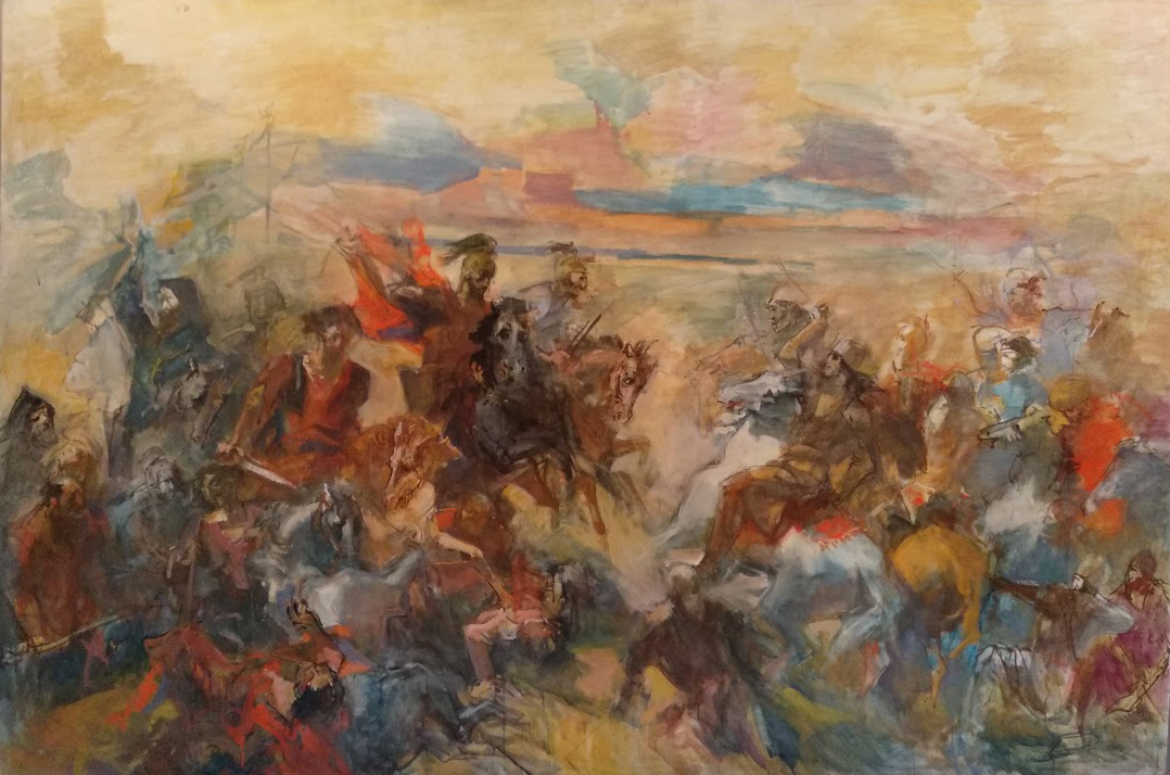 The battle of Avarayr.